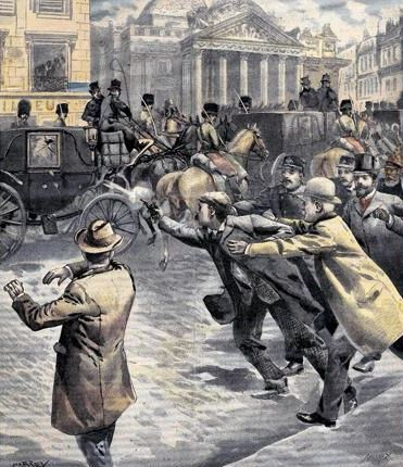 The failed assassination attempt made on king Leopold II of Belgium by the Italian anarchist Gennaro Rubino, Brussels, November 15, 1902